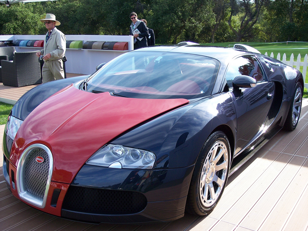 2008 Quial Motorsports Gathering in Carmel California.